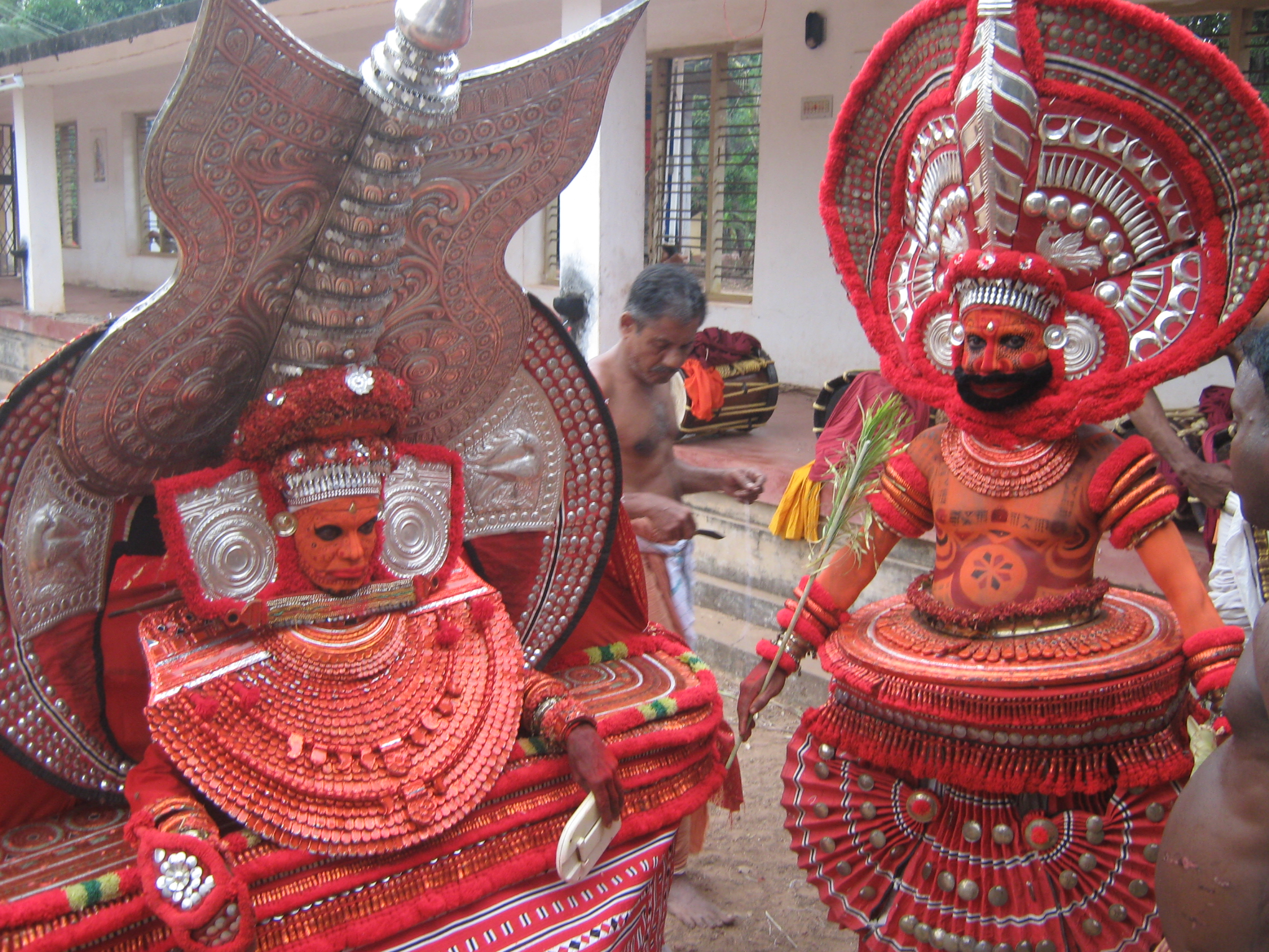 Palot theyyam and koodeyullor teyyam